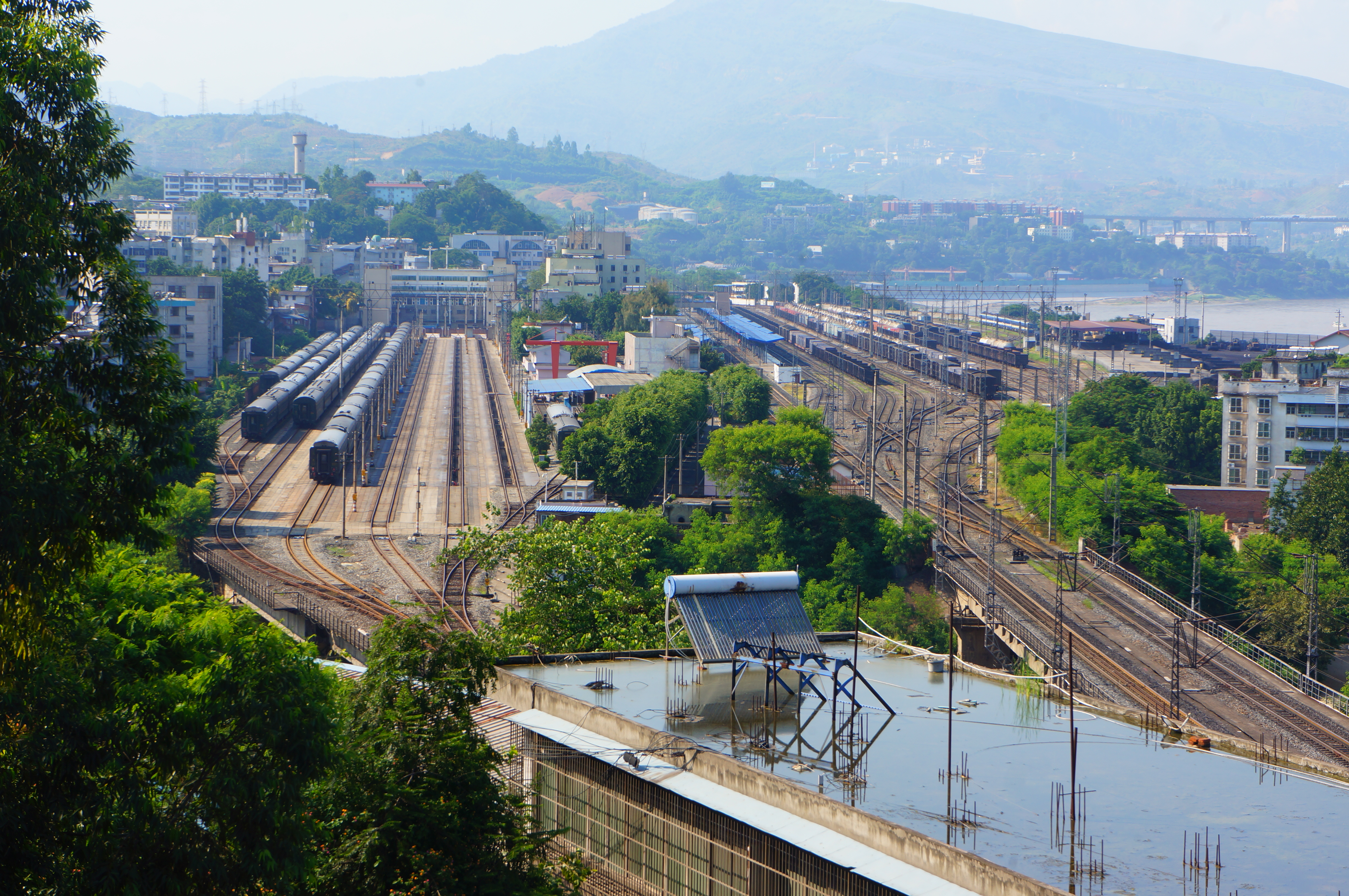 201908 Panzhihua Railway Station from Above